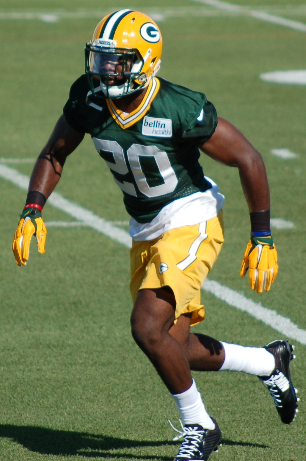 2015 Packers training camp